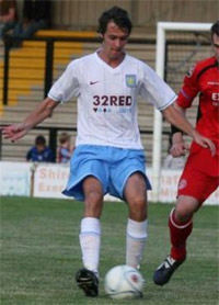 Tobias Mikaelsson in action for Aston Villa, against Hednesford Town, in August 2007.